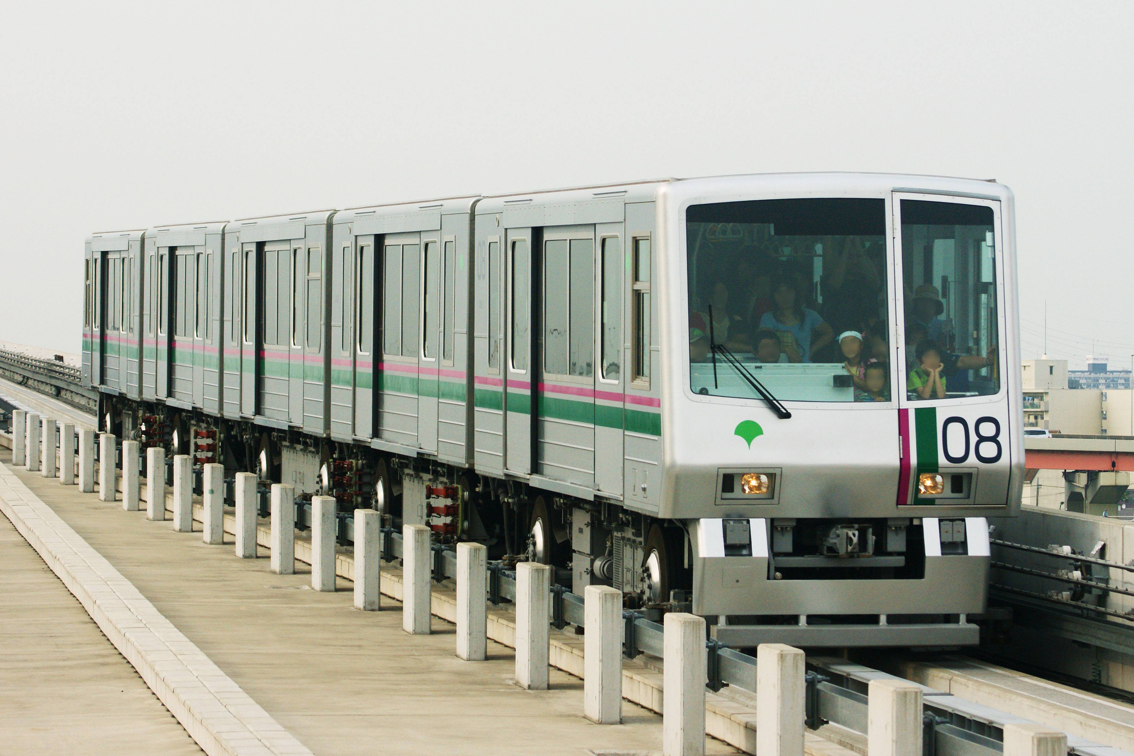 Toei 300 series EMU set 08 on the Nippori-Toneri Liner in Tokyo